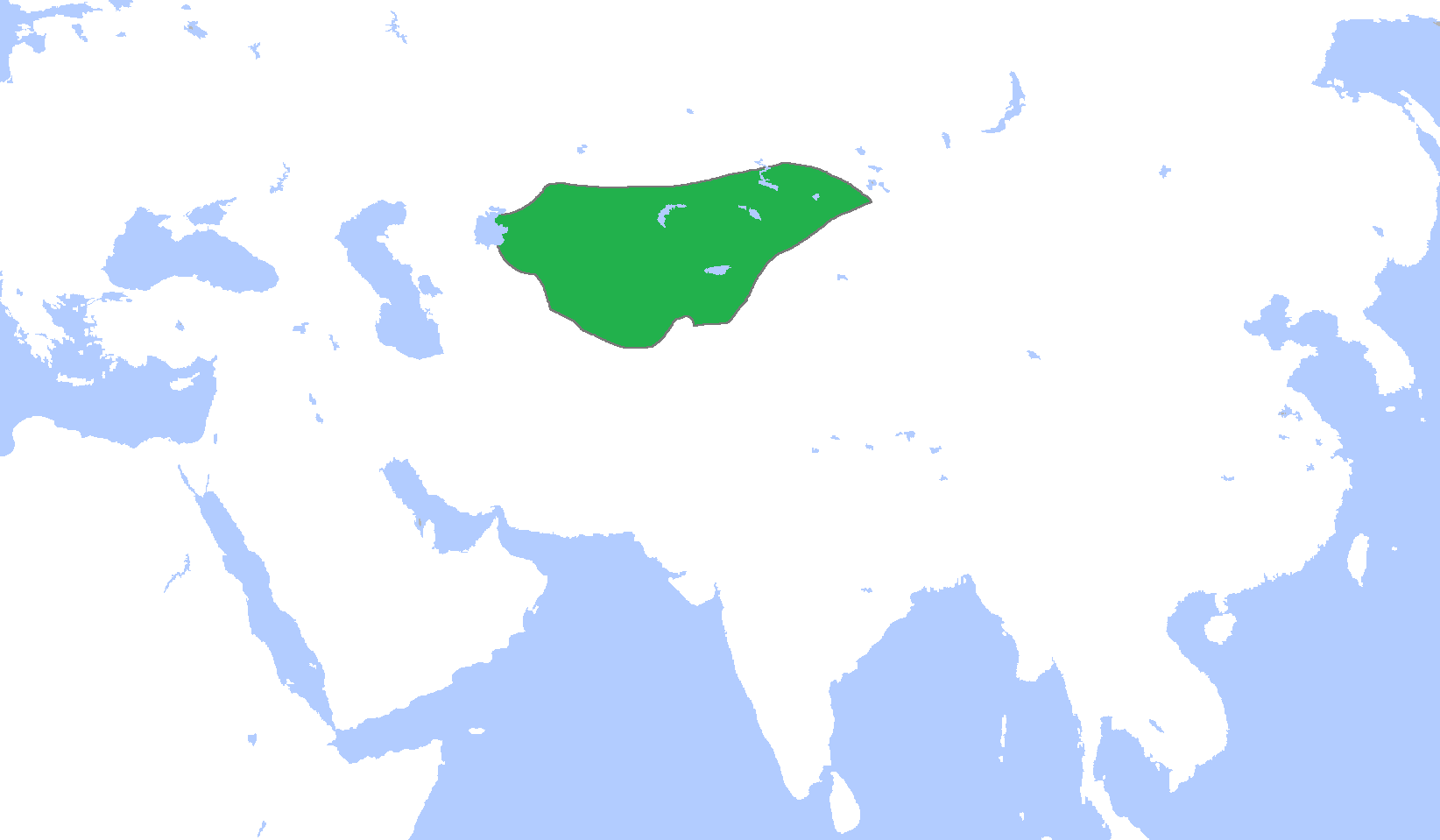 Locator map of the Kara Khitais, c. 1200. (Partially based on Atlas of World History (2007) - The World 1000-1200, map)